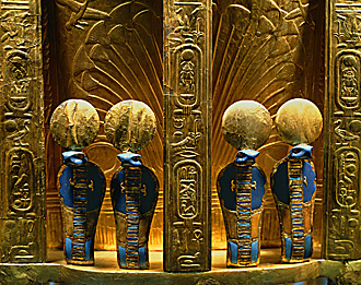 The reverse side of the throne of Pharaoh Tutankhamun (1346-1337 BCE) with four golden uraeus cobra figures. Gold with lapis lazuli; Valley of the Kings, Thebes. 1347-37 BCE, New Kingdom (18th dynasty).